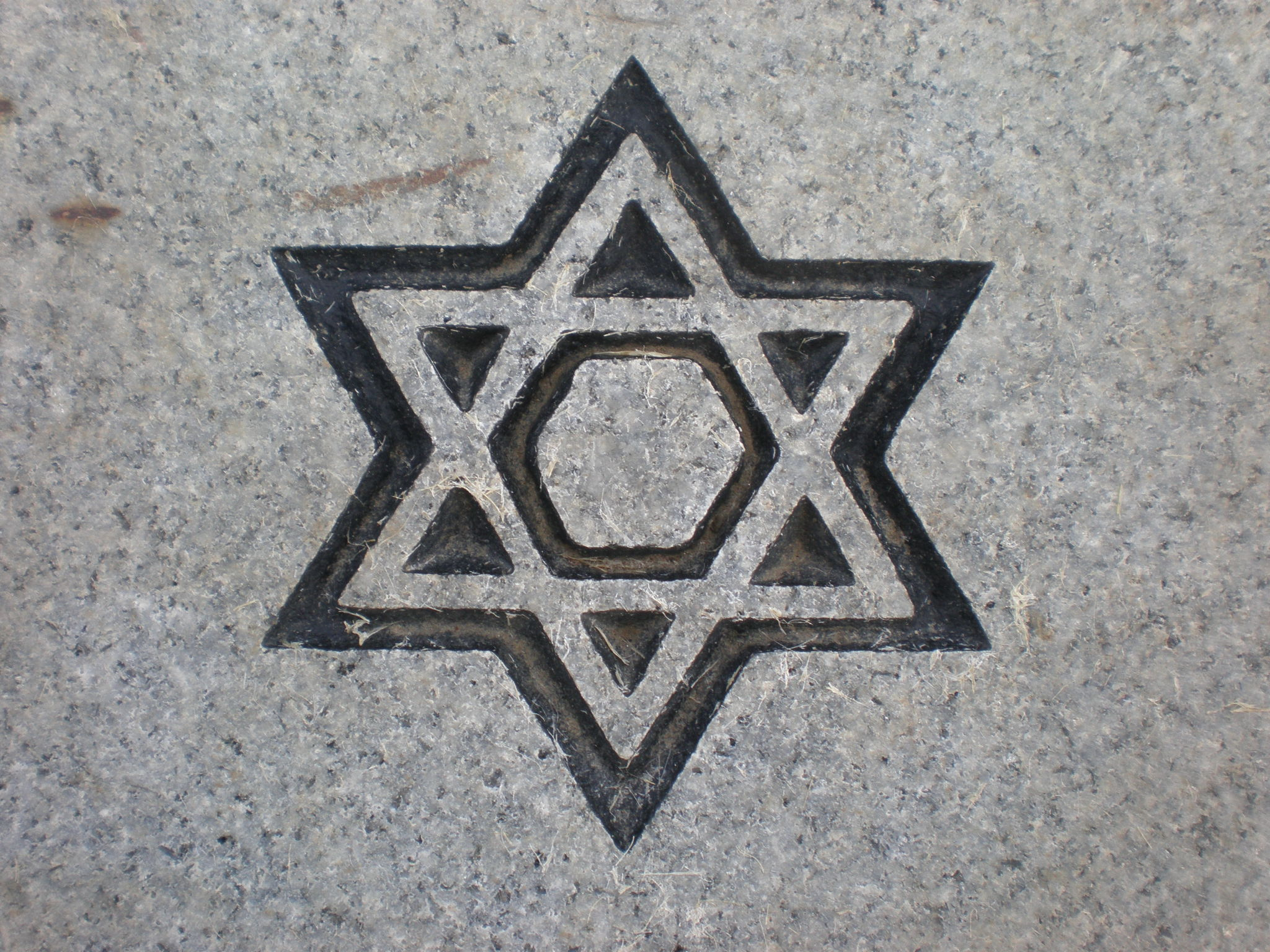 An engraving of the Star of David on a grave marker in Golden Gate National Cemetery in San Bruno, California.